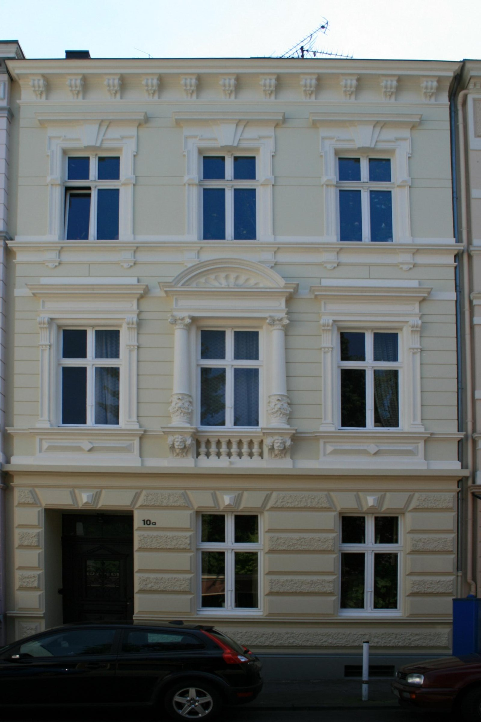 Cultural heritage monument No. F 028 in Mönchengladbach